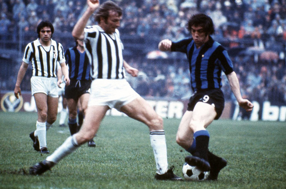 Francesco Morini of Juventus tackling Roberto Boninsegna of Inter during 1973-74 Inter - Juventus in Milan